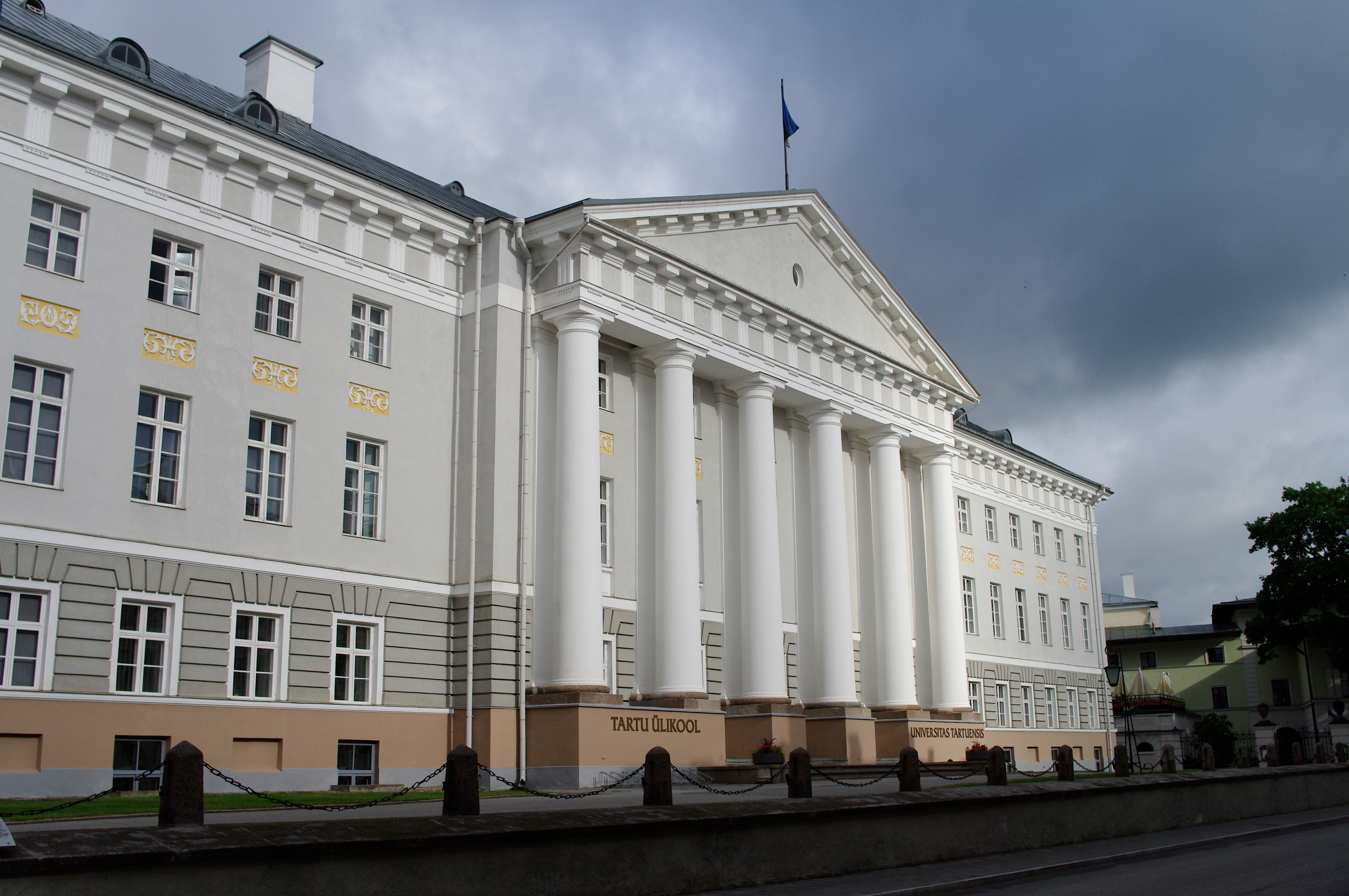 The main building of University of Tartu, Estonia.